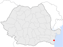 Location of Constanța in Romania.